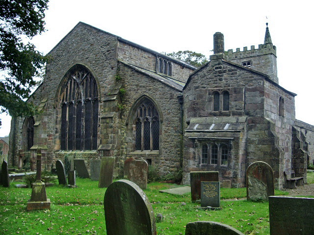 Garstang Parish Church of St Helen, Churchtown, near to Churchtown, Lancashire, Great Britain.